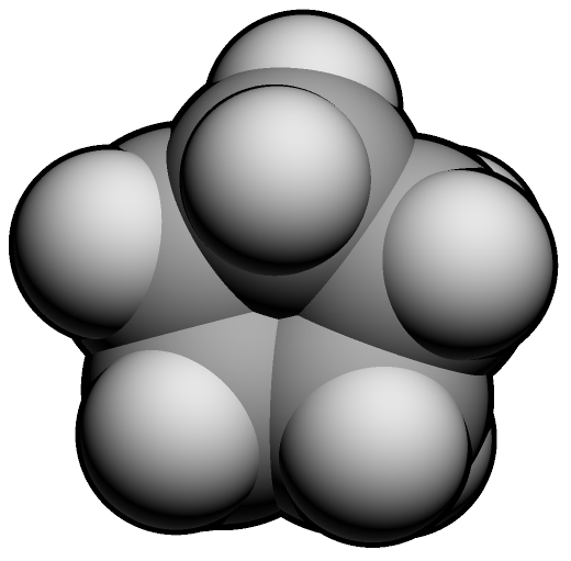 3d molecular spacefill of Cyclopentane